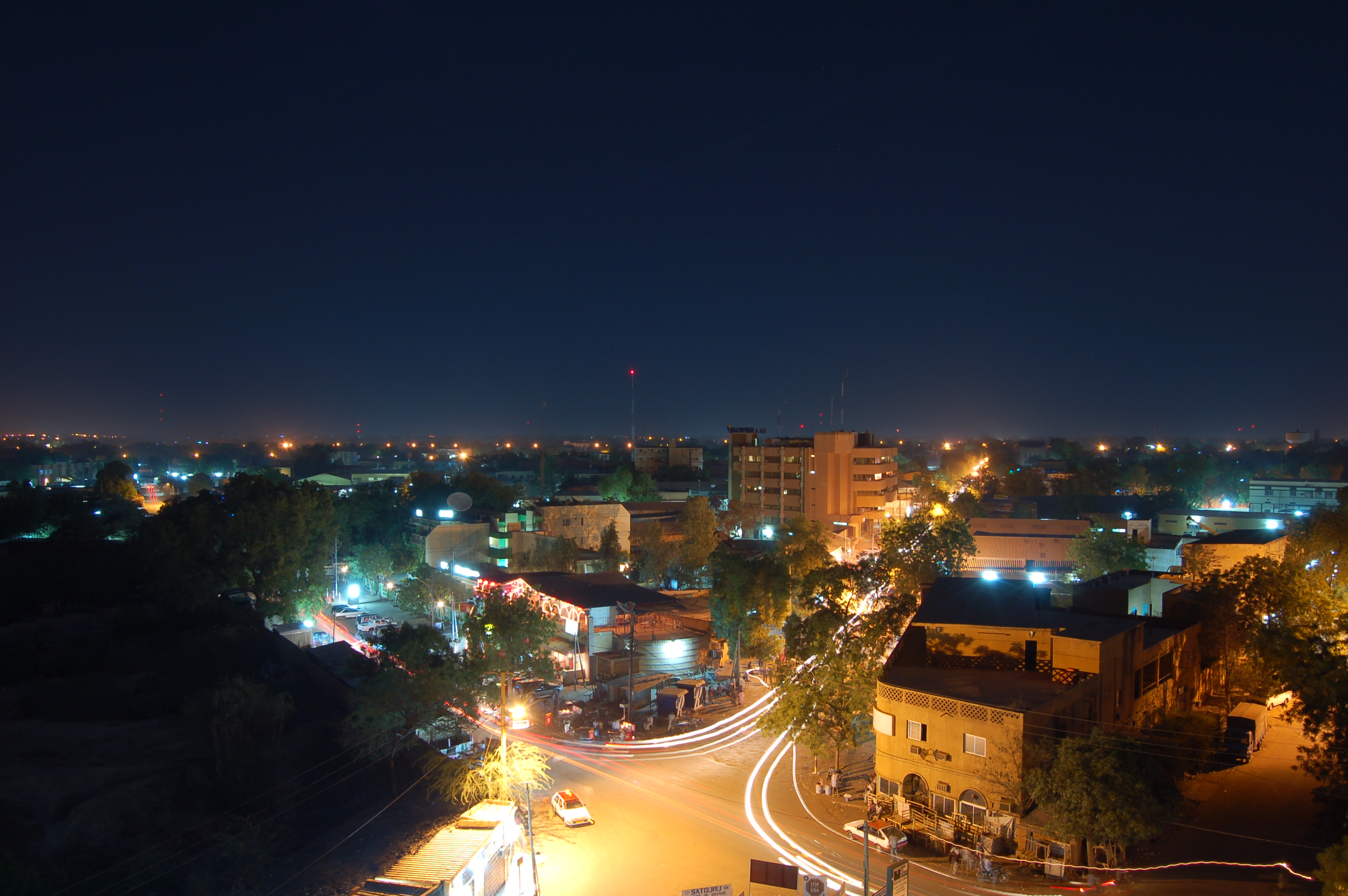 The capital of Niger, Niamey by night.